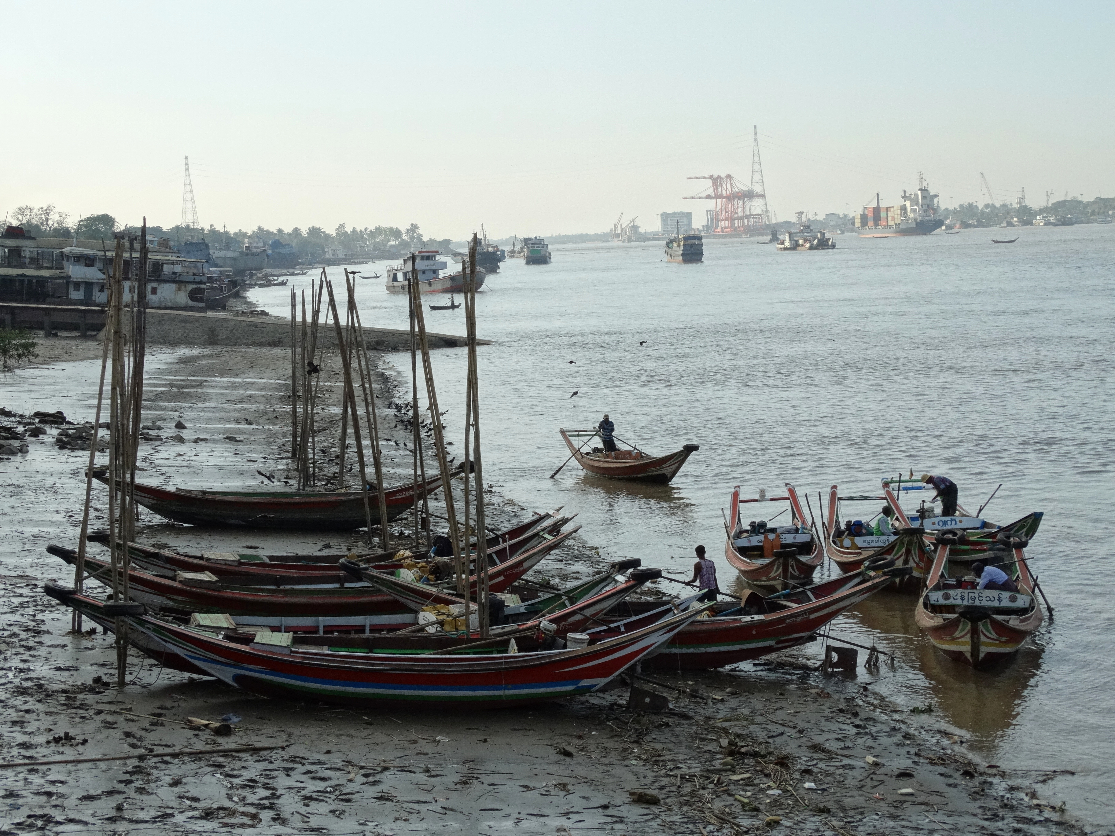 Ayeyarwady (Irrawaddy) River Scene - Dalah - Ayeyarwady (Irrawaddy) Delta - Myanmar (Burma).